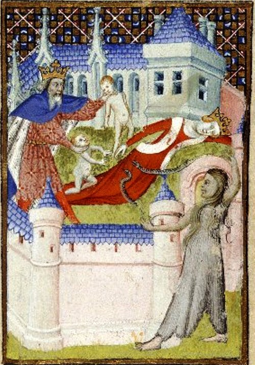 The fury Tesiphone induces King Athamas to kill his children